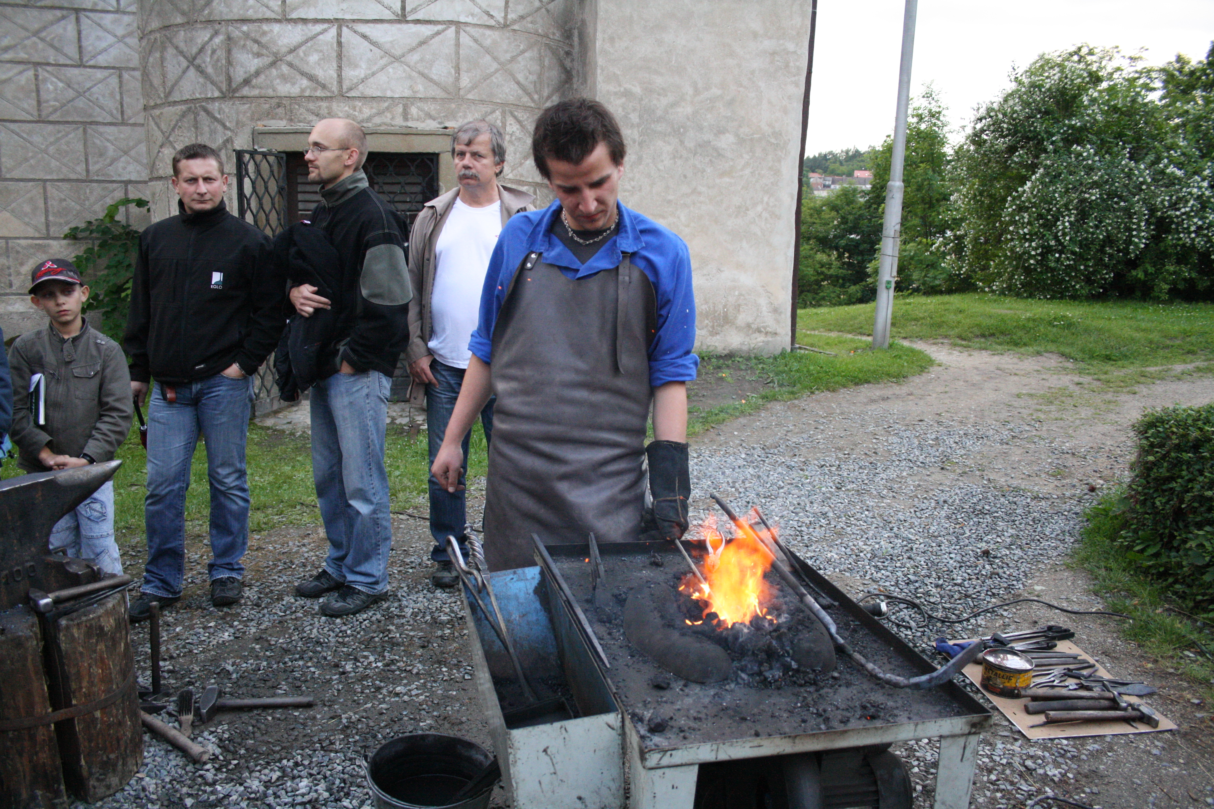 Artistic smith in Třebíč.